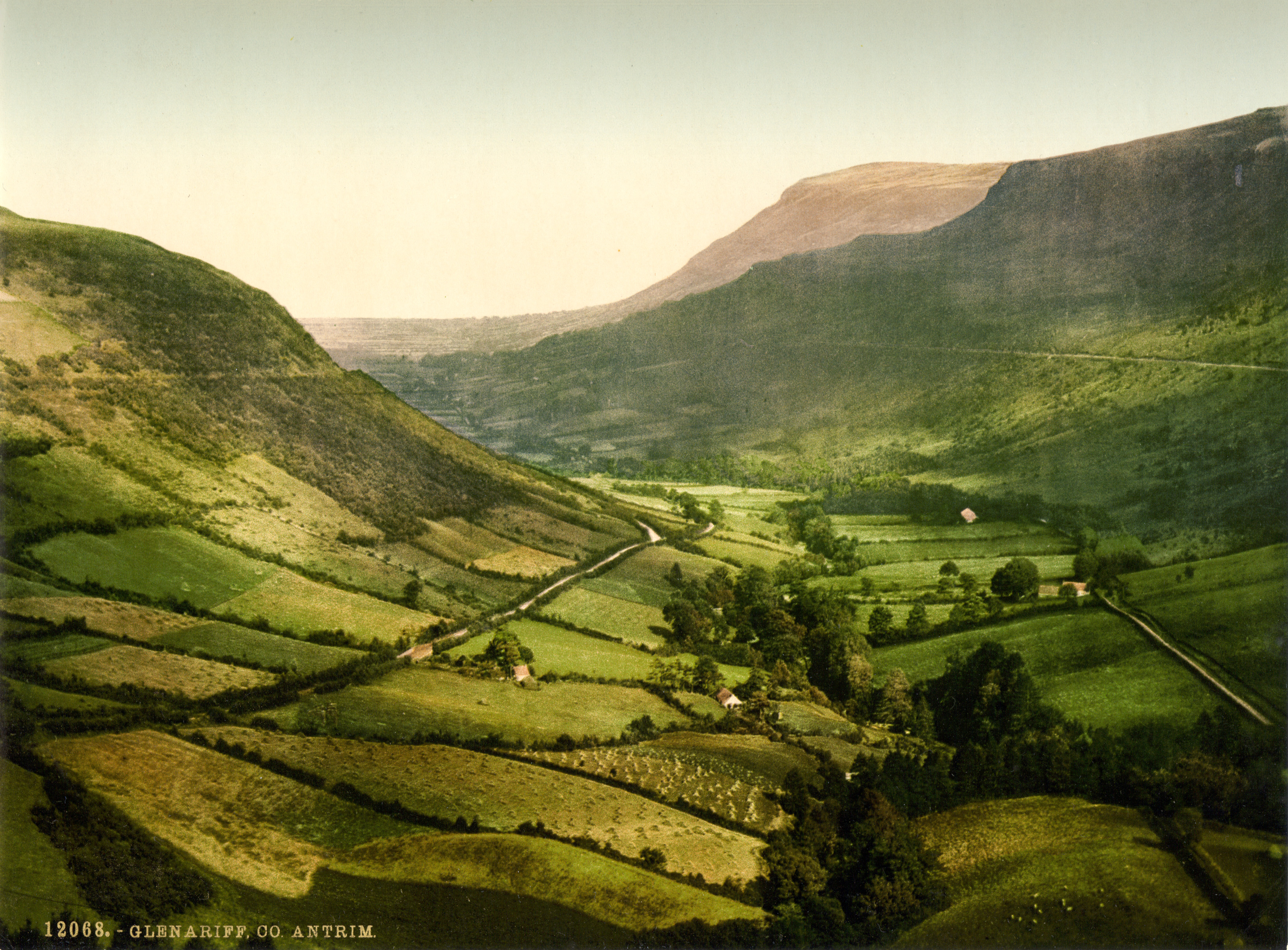 Glenariff, County Antrim, Ireland. 1 photomechanical print : photochrom, color.